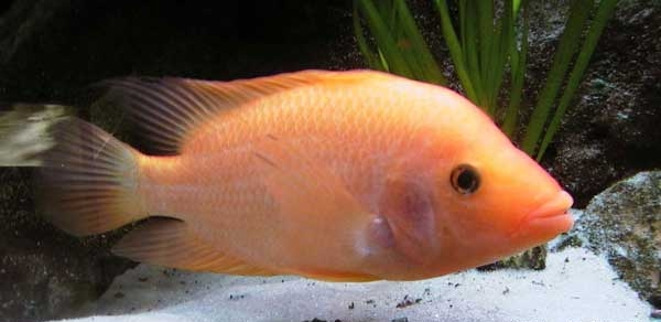 Amphilophus labiatum, female, in aquarium